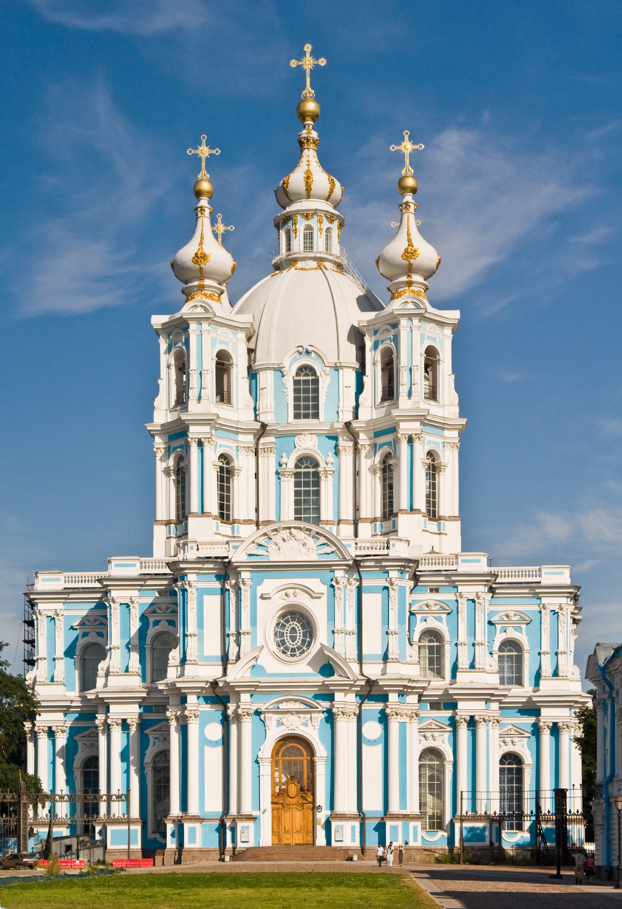 Smolniy Cathedral, Saint Petersburg